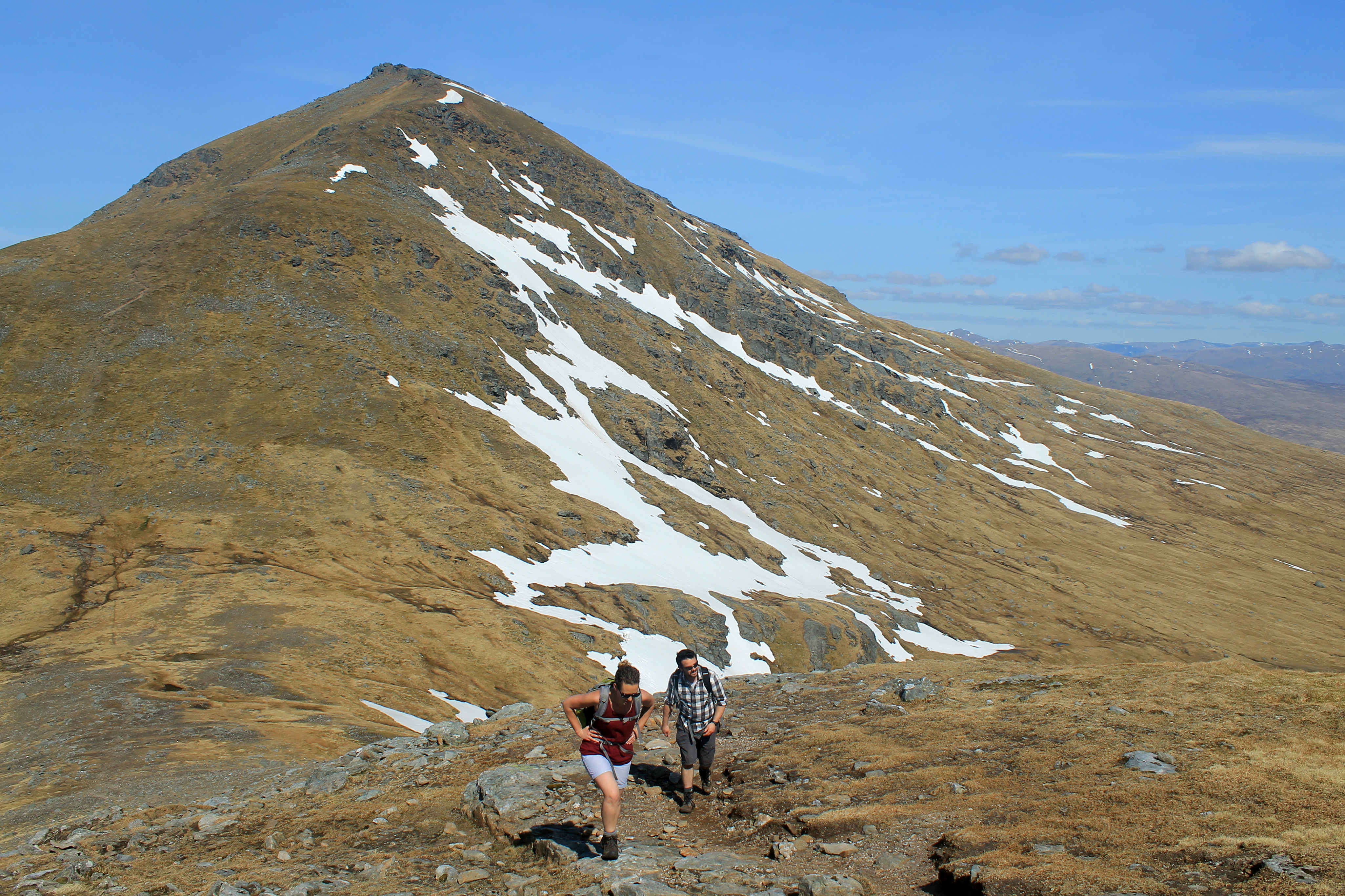 Ben More from Stob Binnein, near Crianlarich in Scotland.